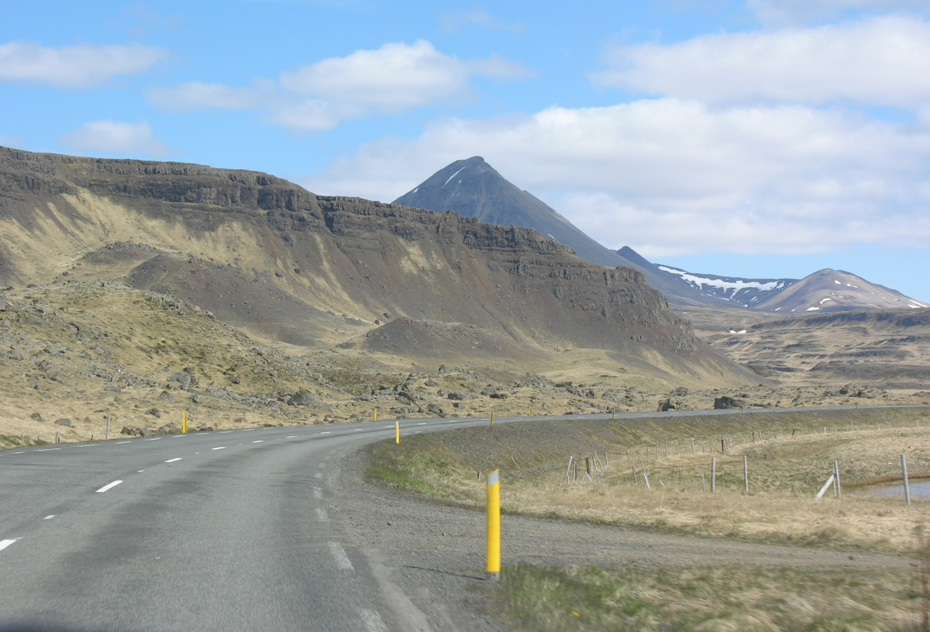 Iceland, views along road Road 1 in Iceland (Hringvegur). Picture is geocoded manually; if someone can contribute to the accuracy, please do so.